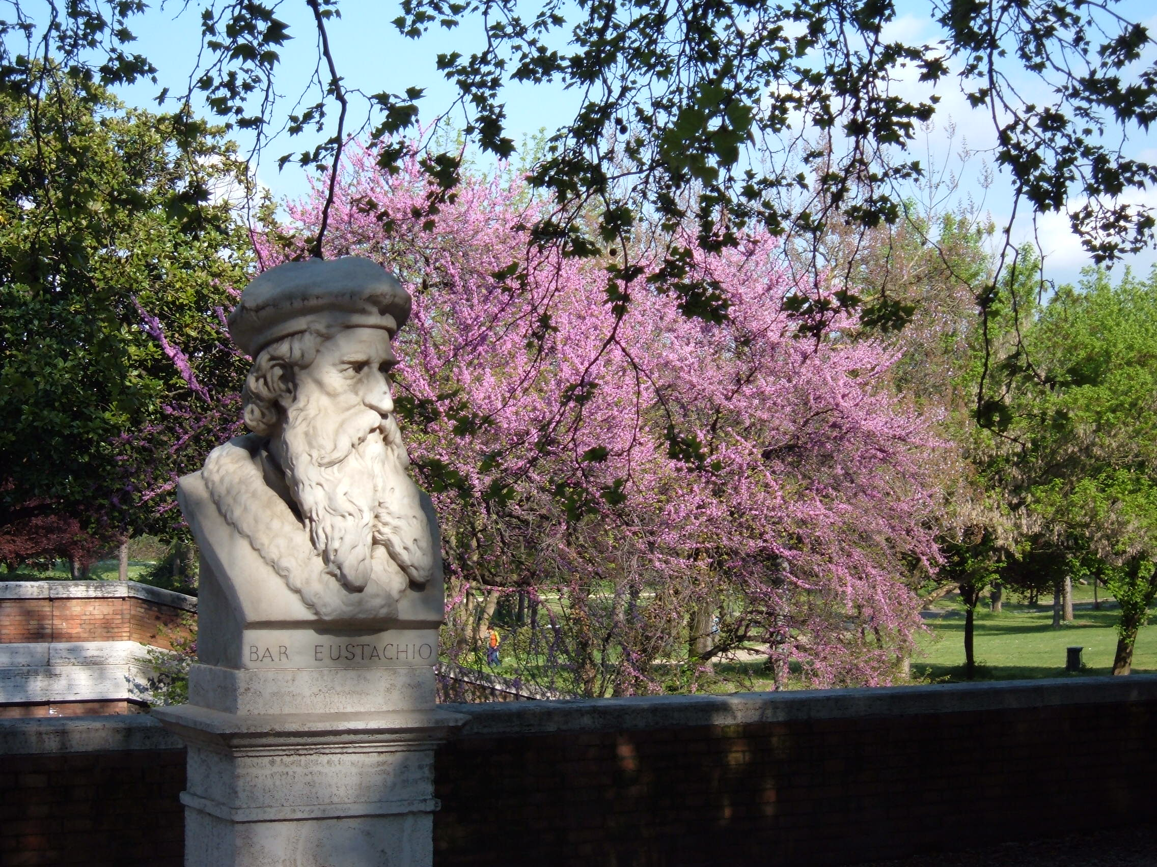 Bust of Bartolomeo Eustachi, bust on the Pincio (Rome)